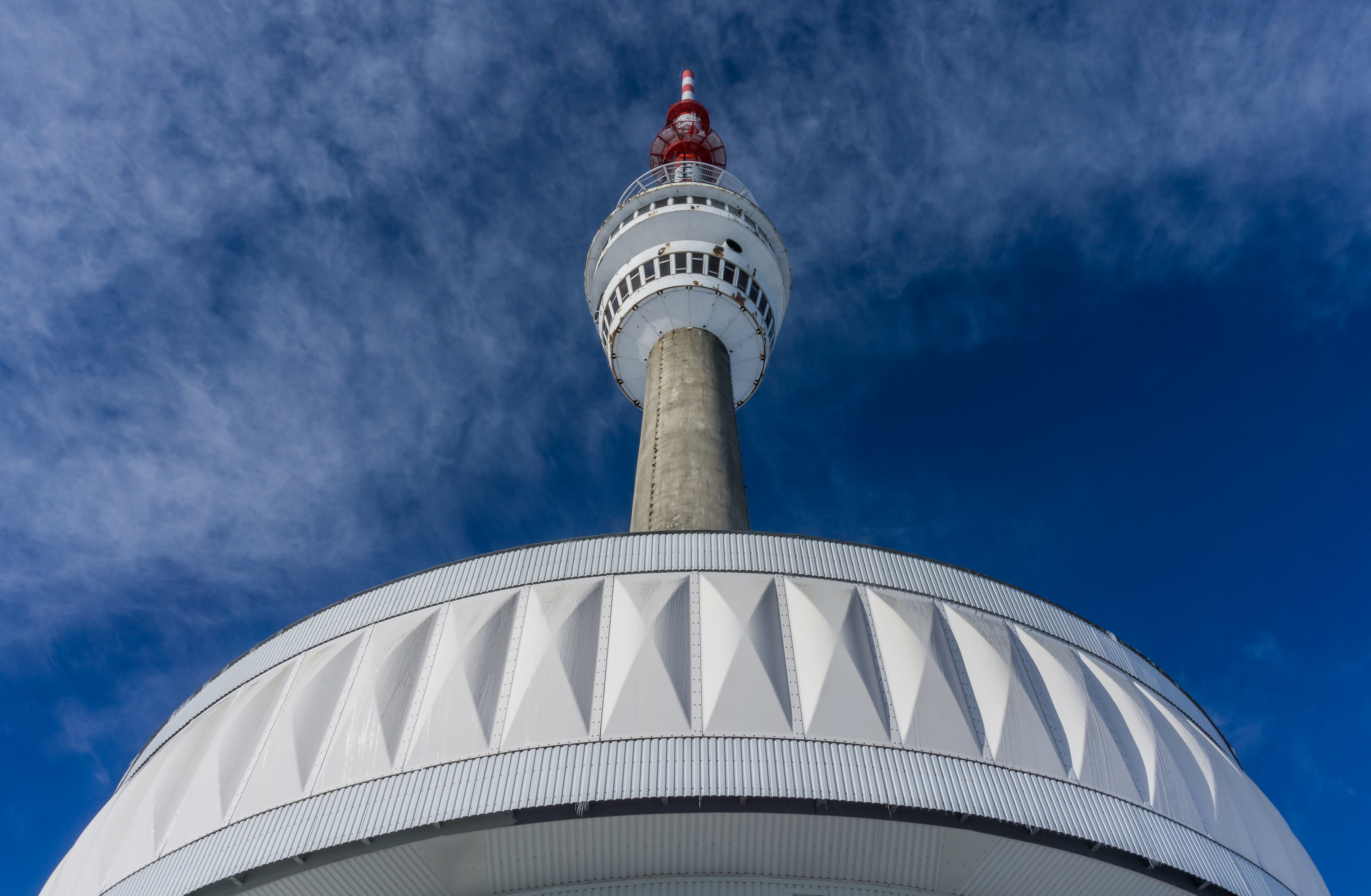 Praděd TV tower in the winter. Jeseníky, Czech Republic